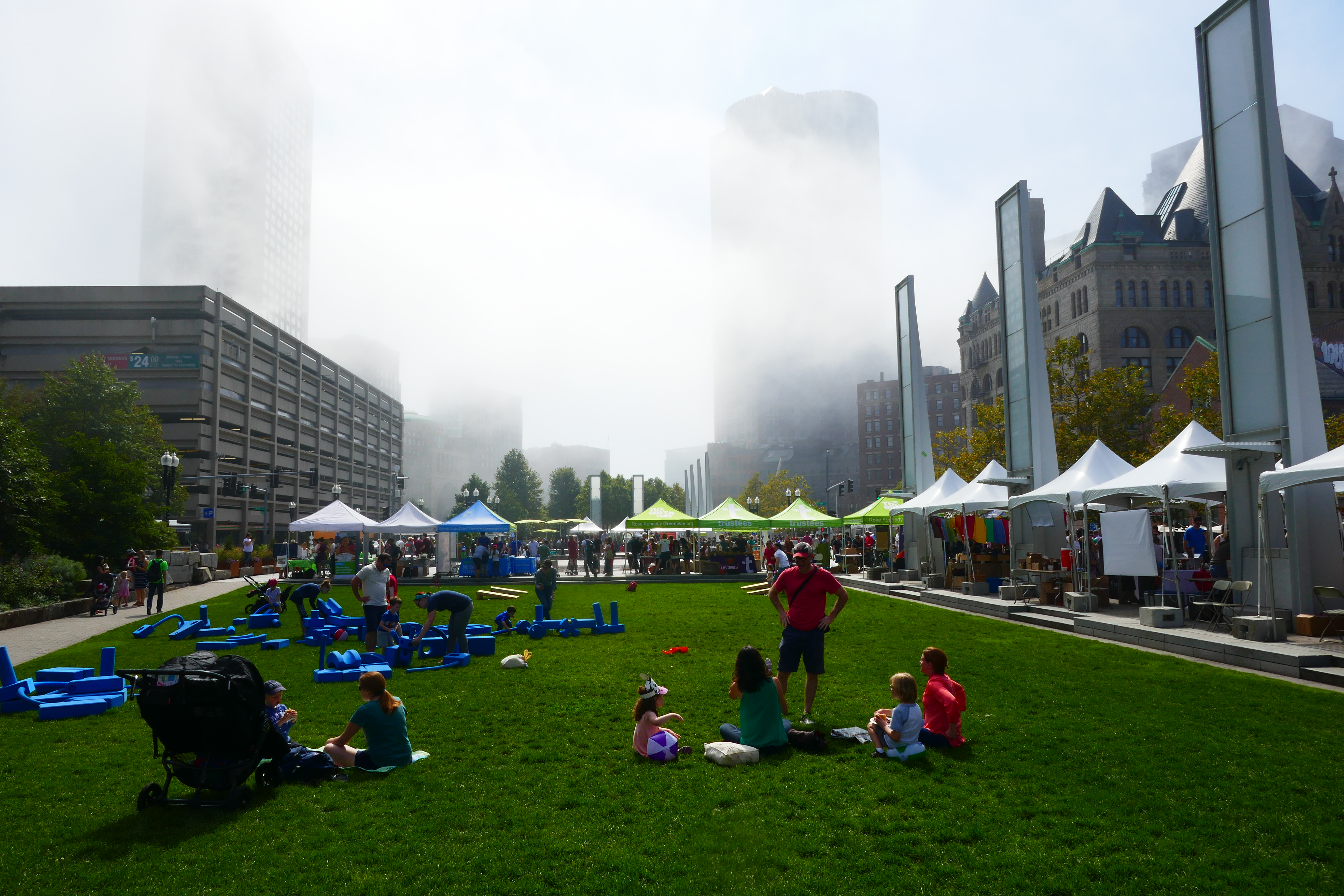 A foggy day on the Rose Kennedy Greenway in Boston